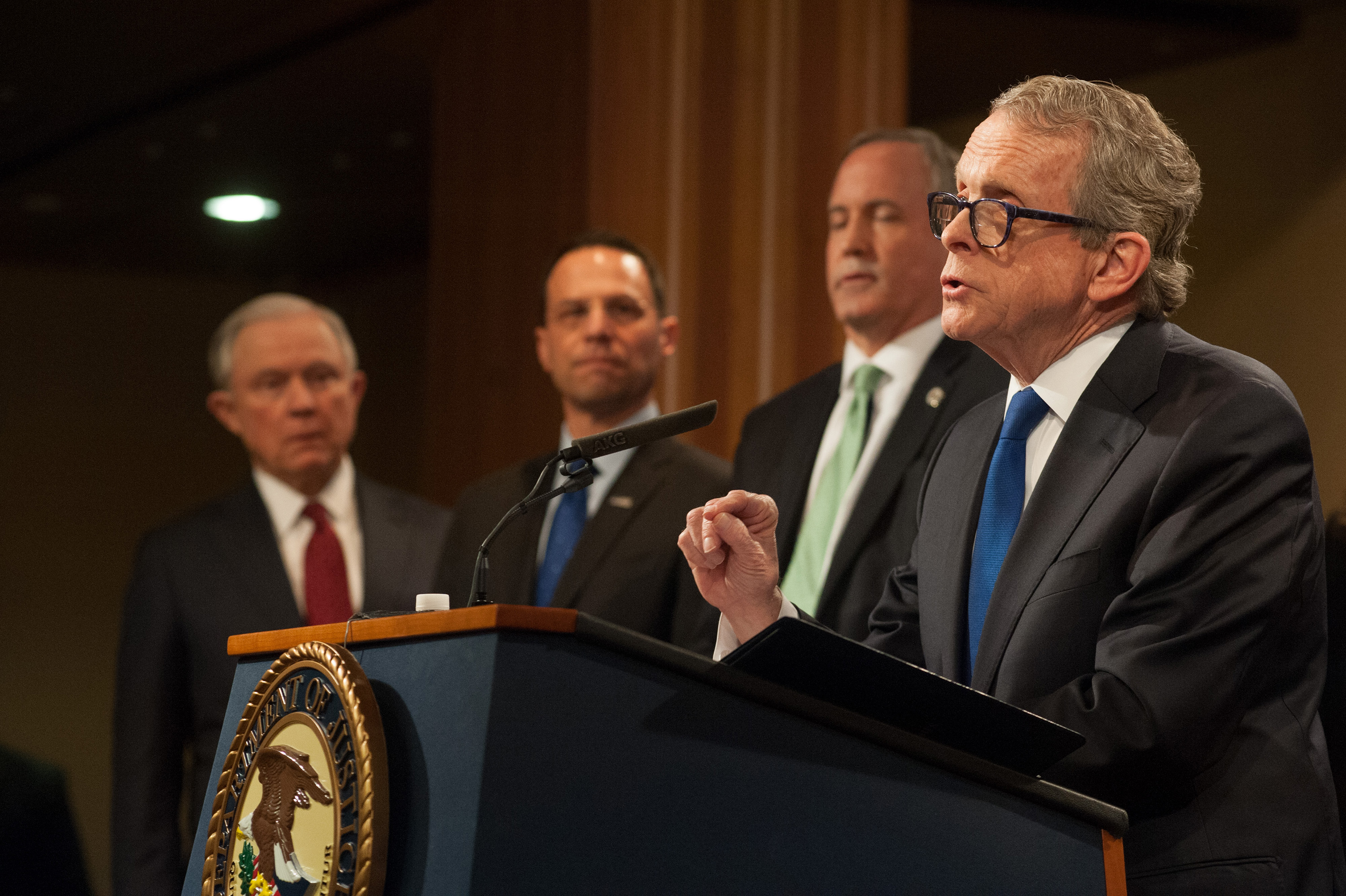 Ohio Attorney General Mike DeWine delivers remarks.